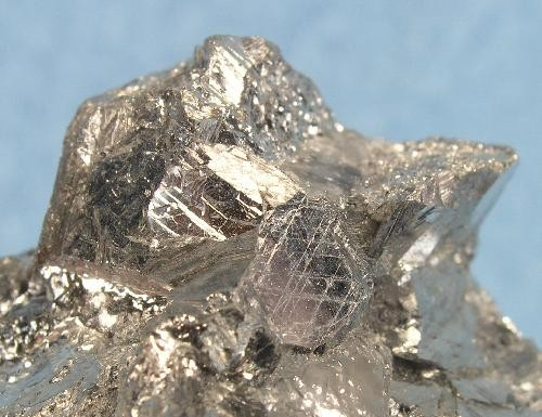 Antimony Locality: Monarch Antimony mine, Gravelotte, Murchison Range, Limpopo Province, South Africa (Locality at ) Size: 3.2 x 2.6 x 2.2 cm. An excellent specimen of brilliant, complex native Antimony crystals up to about 1 cm. Much of the matrix is covered by these crystals, some of which are broken and some of which are the faces, as revealed by cleavage of adjacent crystals in the intergrown mass. Ex. Charlie Key.